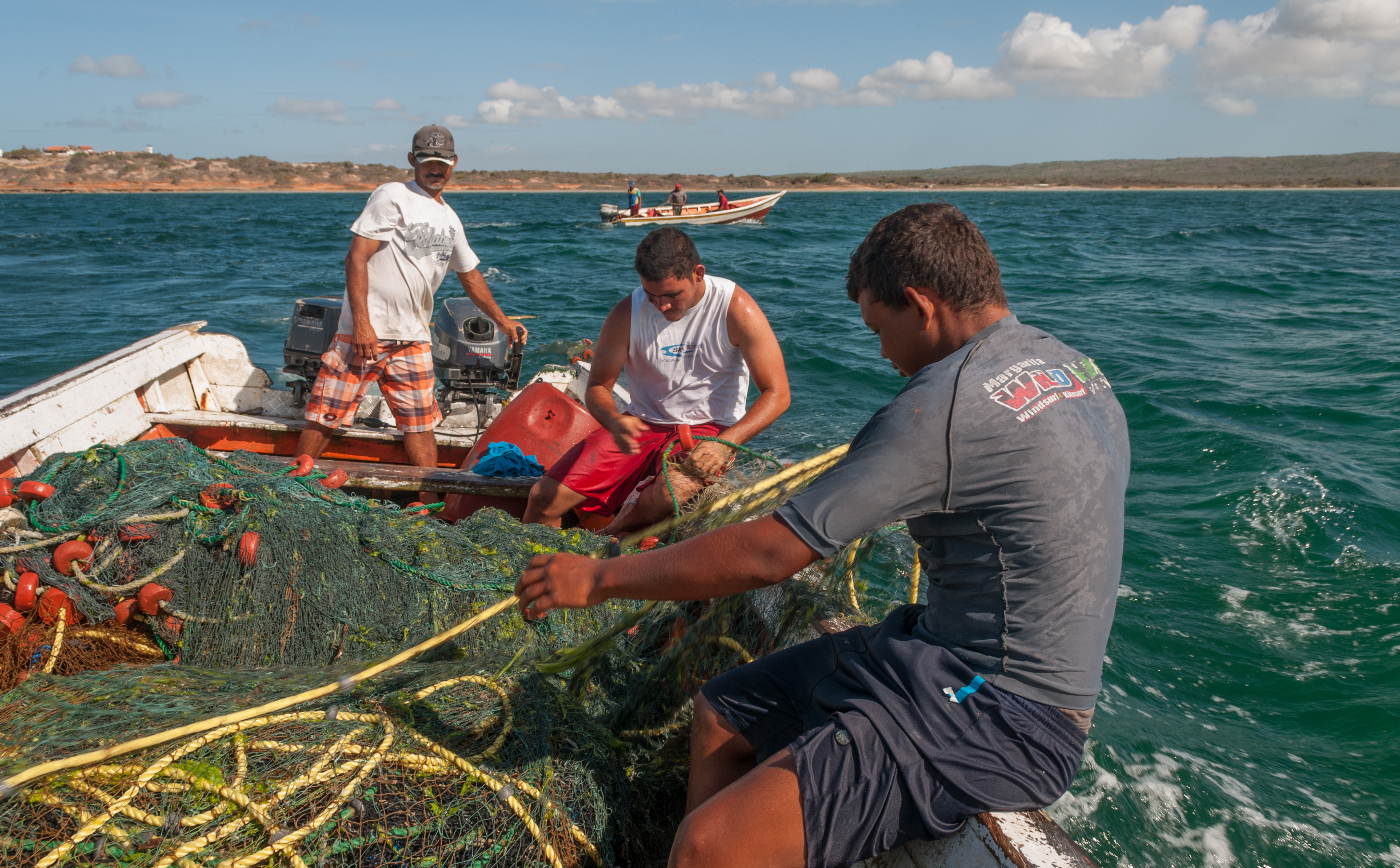 Fishing in El Manglillo, Margarita Island